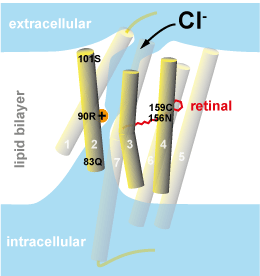 The structure of the chloride-conducting channelrhopsin iChloC